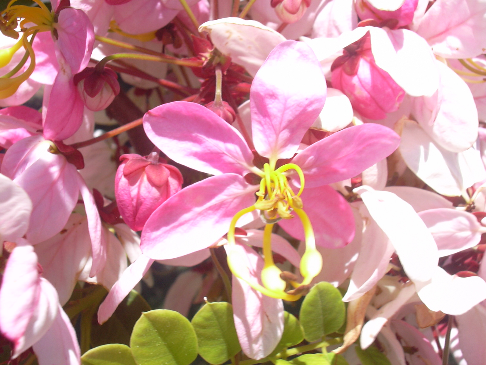 Cassia javanica (flowers). Location: Maui, Baldwin Ave